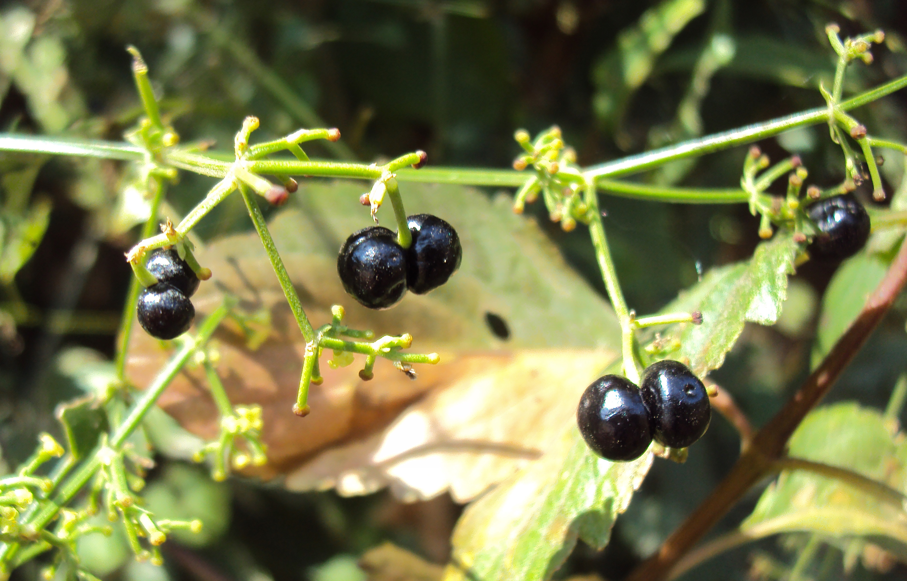 Rubia Cordifolia